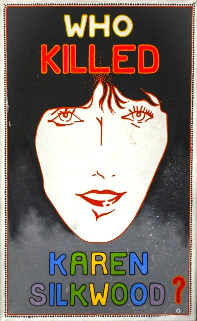 Old Christic Institute poster, "Who killed Karen Silkwood?"